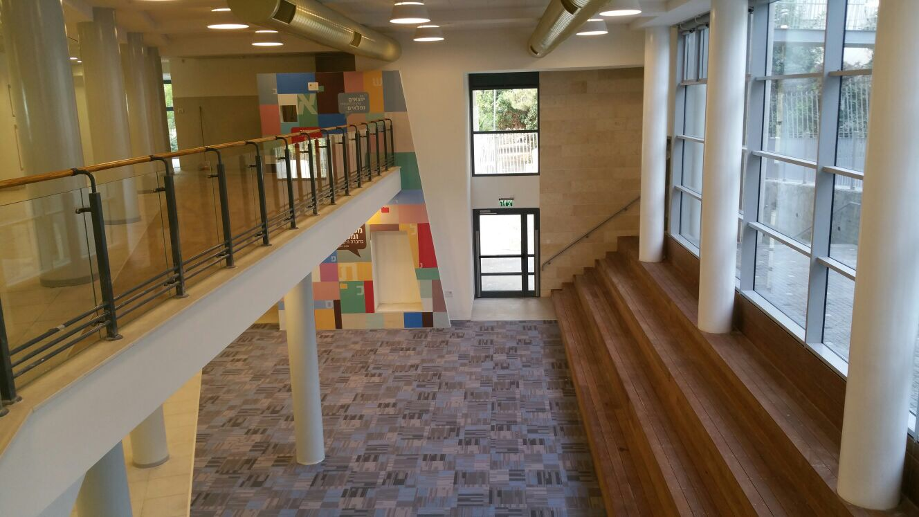 Eliyahu Building